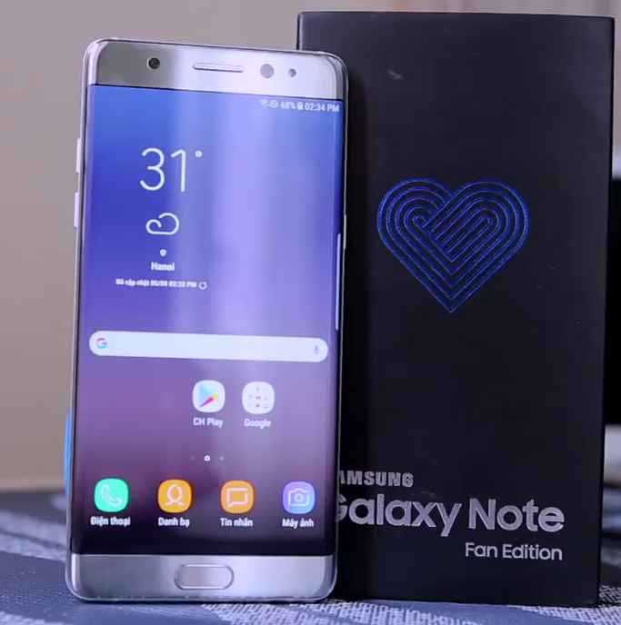 Note FE